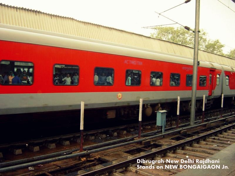 photo